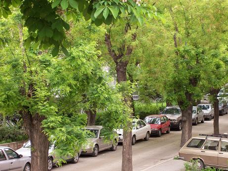 Suslu Street (Sokak) Mebusevleri Tandogan Ankara Turkey Turkiye